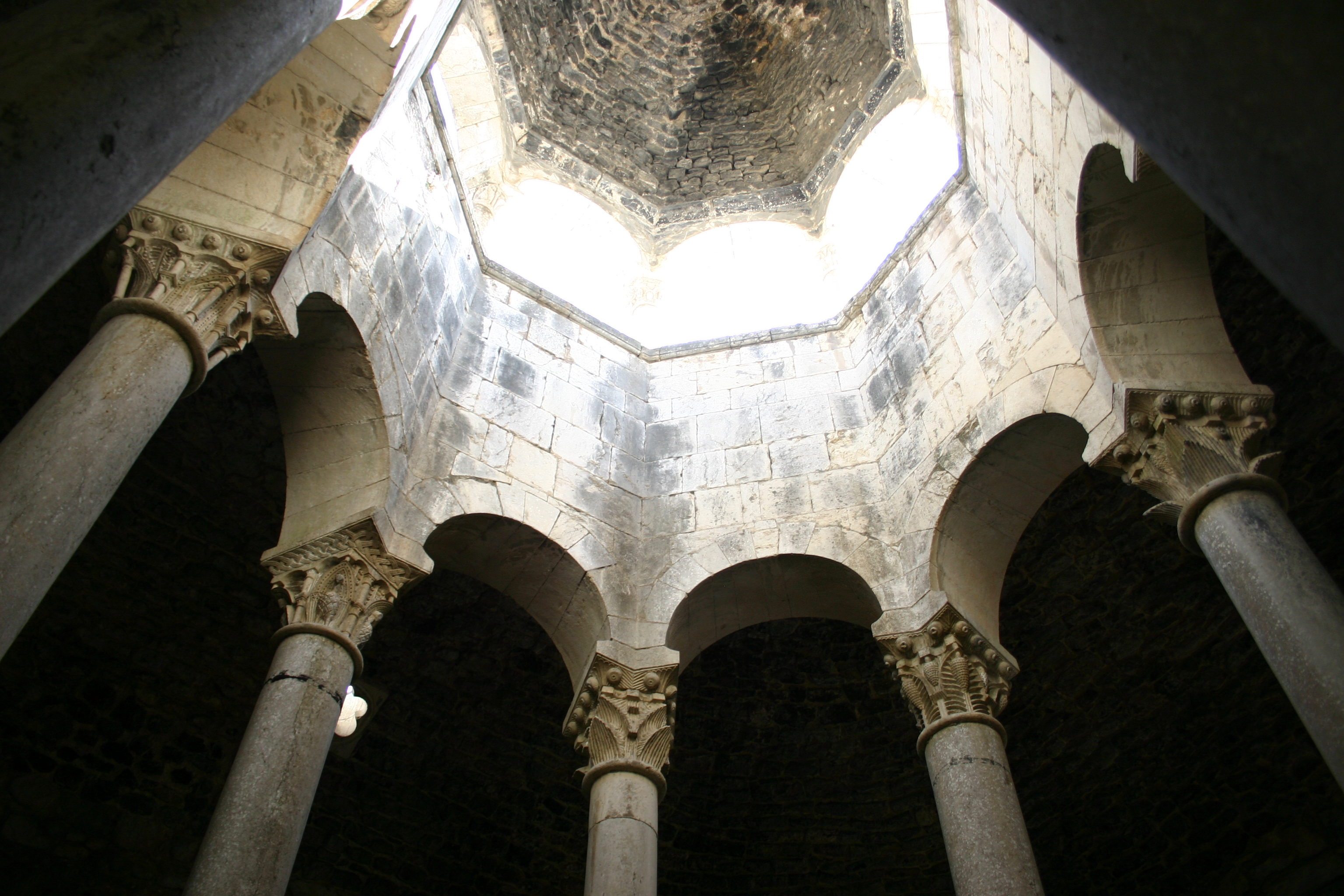 Apodyterium (Dressing room). Arab baths. (XIII Century) Girona, Catalonia (Spain)